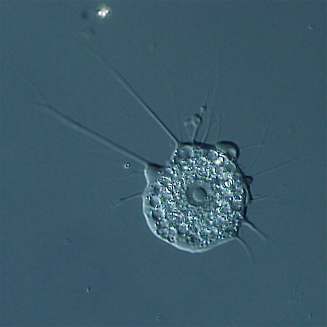 Nuclearia thermophila / from Lake Yuno-ko, Nikko, Tochigi Pref., Japan / Microscope:Leica DMRD (DIC)